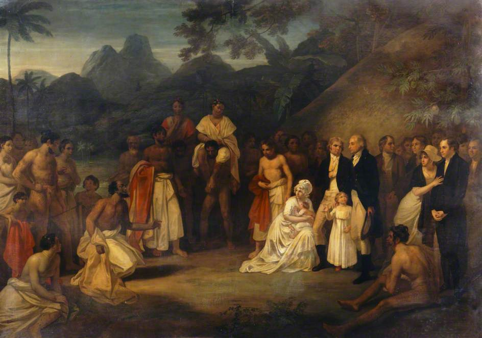 The Cession of the District of Matavai in the Island of Otaheite to Captain James Wilson for the use of the Missionaries Sent Thither by that Society in the Ship Duff. A version of the painting from the School of Oriental and African Studies on loan from the Council for World Mission's Archive (P), possibly the original 1798 version by Robert Smirk. The original painting by Robert Smirk was commissioned by the Directors of the London Missionary Society in 1798 to commemorate the grant of land to build a mission in Tahiti which occurred in March 16, 1797. In the background is Mt. Aora'i. The dwelling immediately behind the group is Bligh's 'British house'. The end section of the first missionary house is on the right. The identification of the figures in the painting can be found on pages xiii and 32 of Colin Newbury's edited book The History of the Tahitian Mission, 1799-1830, Written by John Davies, Missionary to the South Sea Islands With Supplementary Papers of the Missionaries..